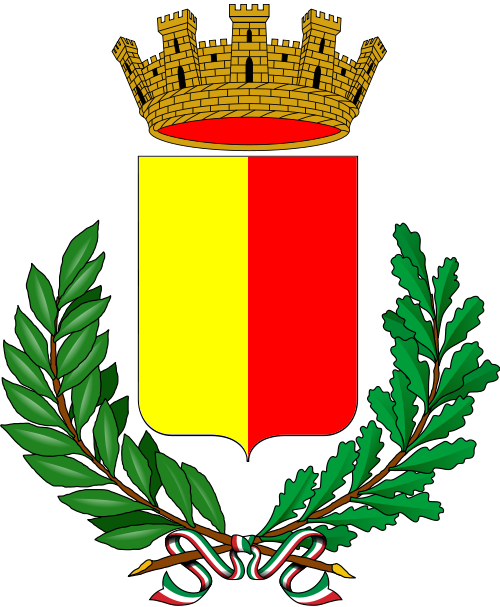 Coat of arms of the City of Bergamo